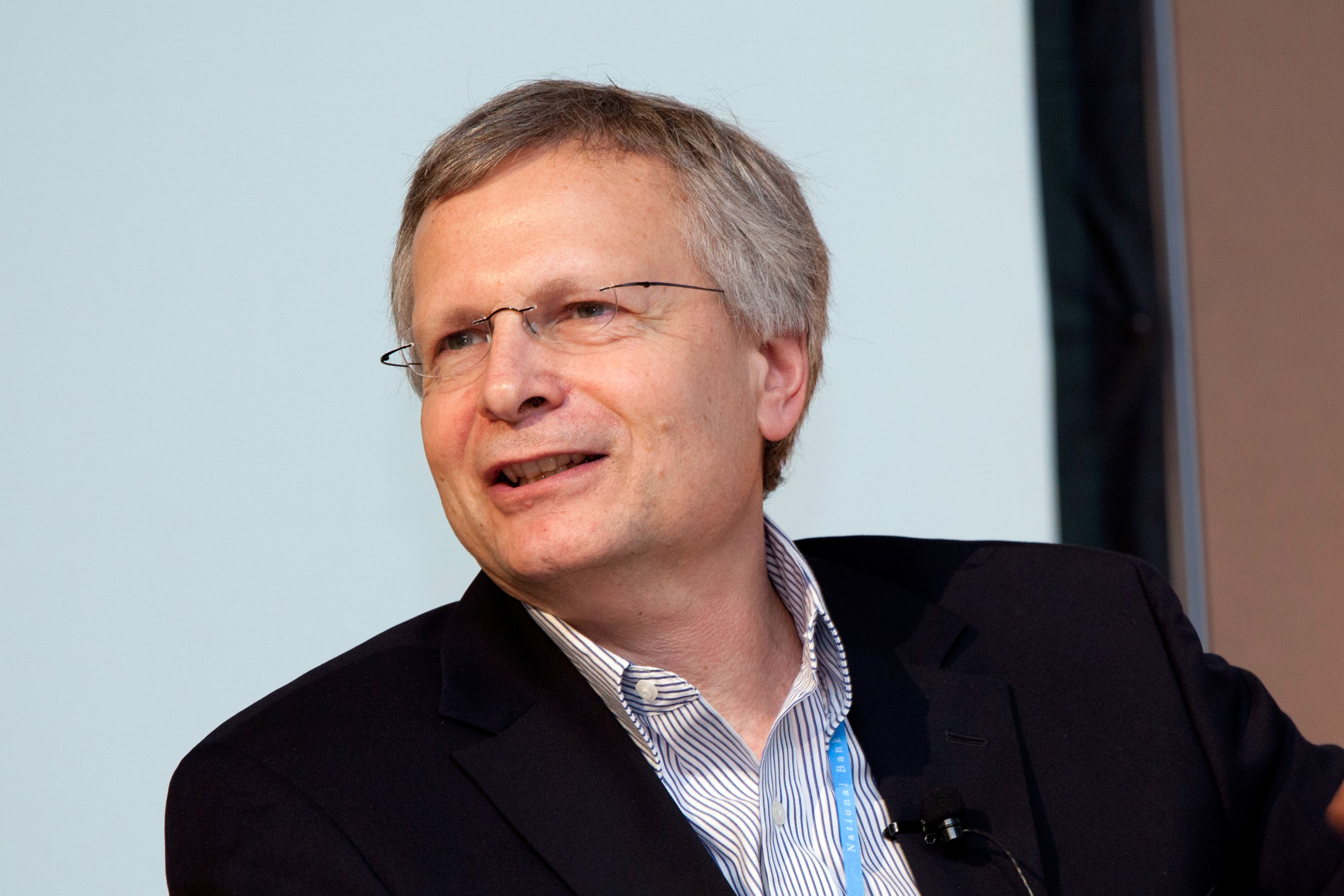 Turkish economist and Rafiq Hariri Professor of International Political Economy at the John F. Kennedy School of Government, Harvard University, teaching in the School's MPA/ID Program.